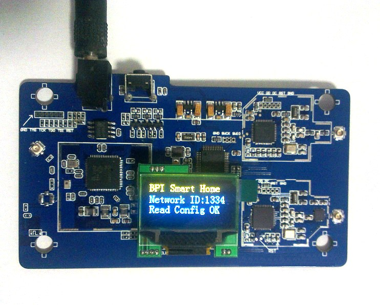 BananaPi-G1